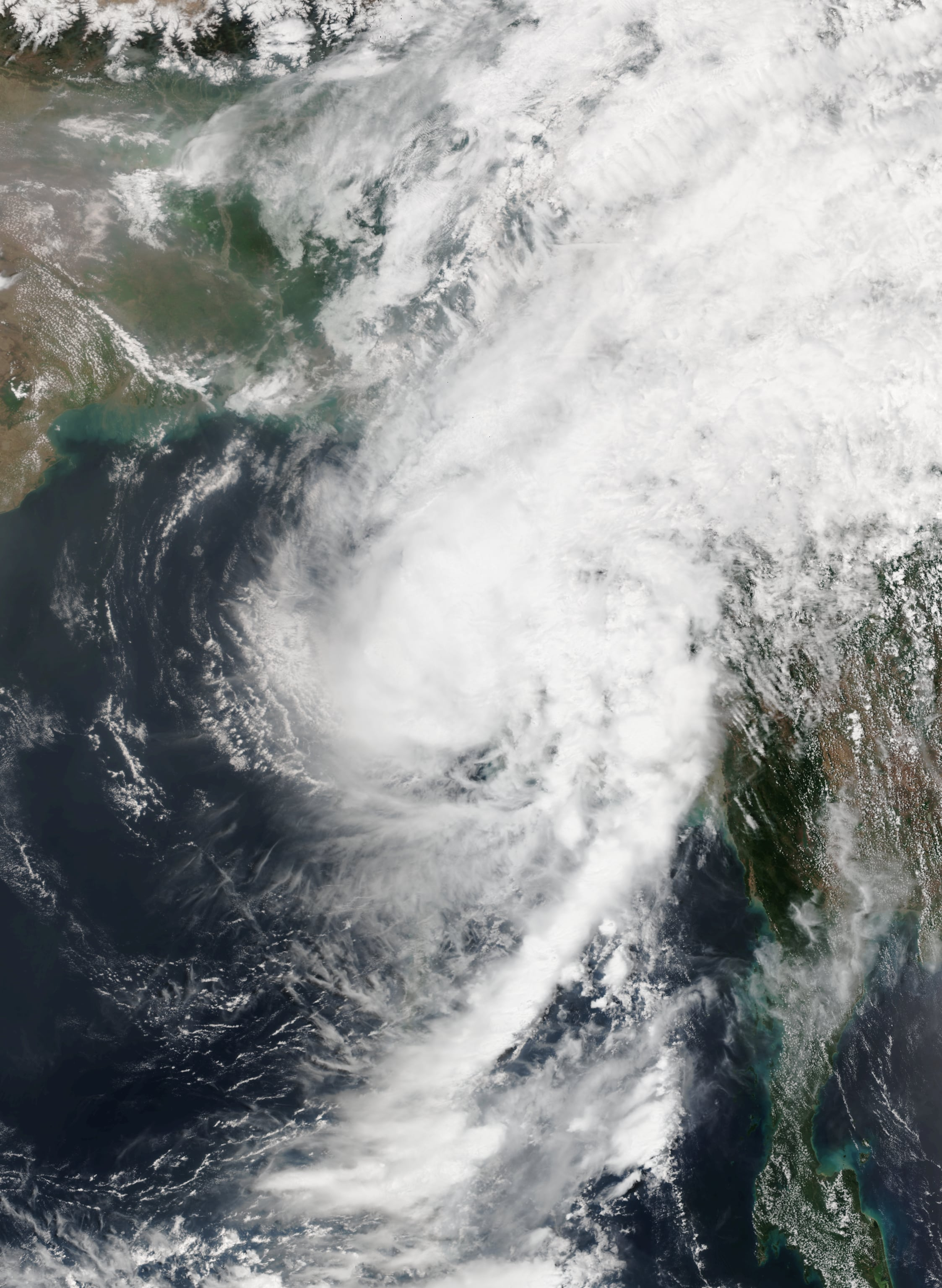 Cyclone Maarutha (01B) over in the Bay of Bengal on April 16, 2017